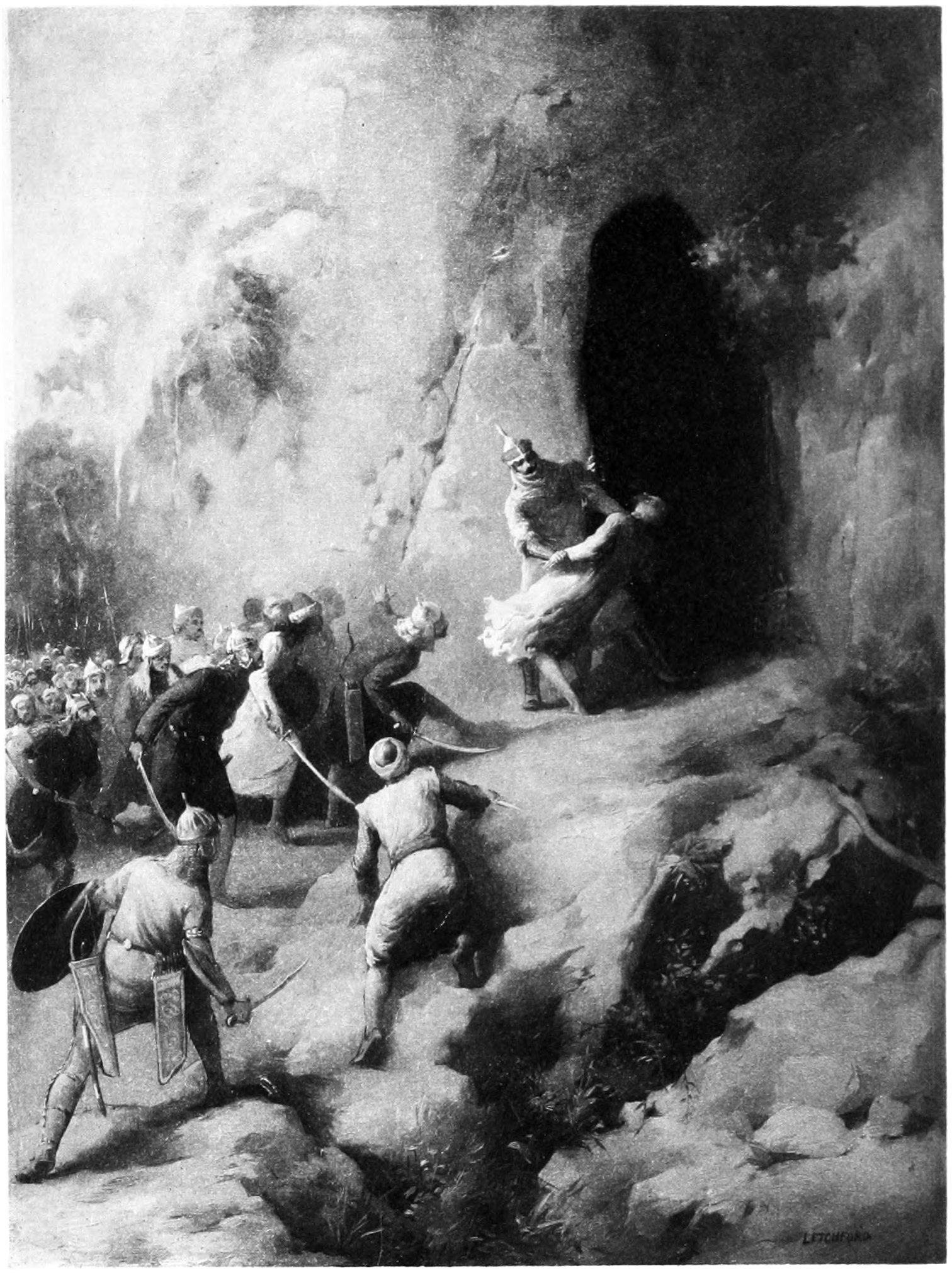 Ali Baba and the Forty Thieves — But the unhappy man ran full tilt against the Captain, who stood in front of the band, and felled him to the ground; whereupon a robber standing near his chief at once bared his brand and with one cut clave Kasim clean in twain.